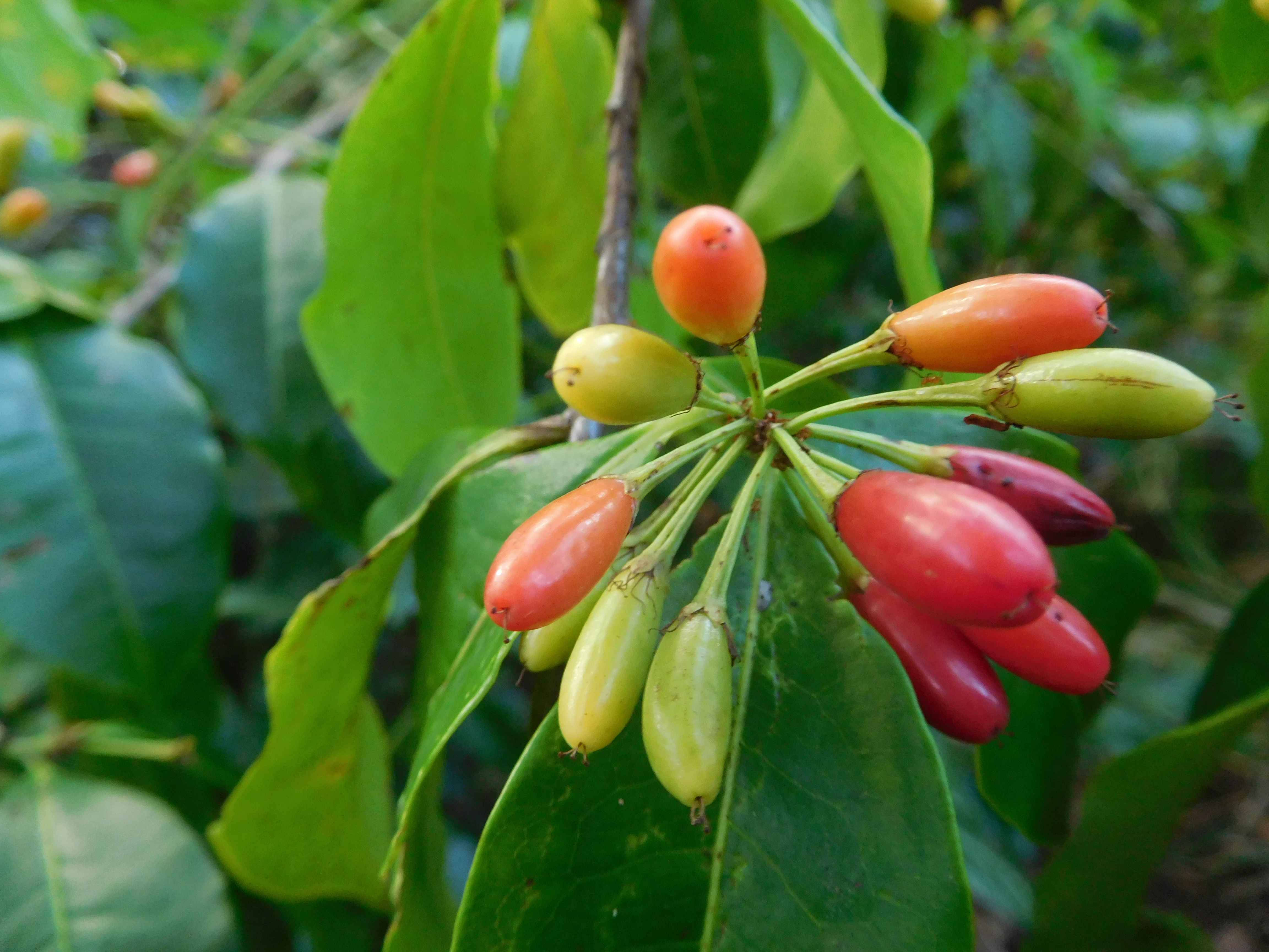 Erythroxylaceae Kunth (1822)